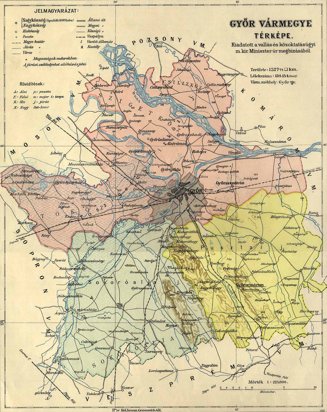 Administrative map of the county of Győr in the Kingdom of Hungary